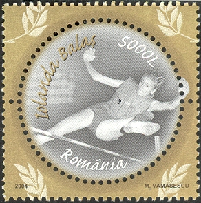 Stamps of Romania, 2004